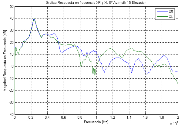 Head-Related Transfer Function (HRTF)'s Frequency response graph XR and XL 0° Azimuth 15° Elevation horizontal axis: frequency [Hz] (& times; 104) vertical axis: magnitude of frequency response [dB]